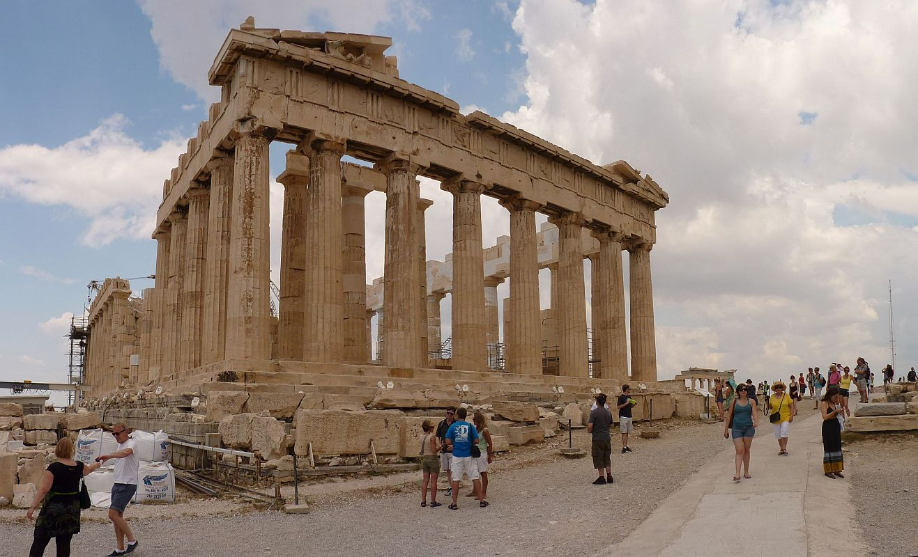 The Acropolis of Athens (Greek: Ακρόπολη Αθηνών) is an ancient citadel located on a high rocky outcrop above the city of Athens and containing the remains of several ancient buildings of great architectural and historic significance, the most famous being the Parthenon. You can use the images for free. But a link to - I would be happy :)